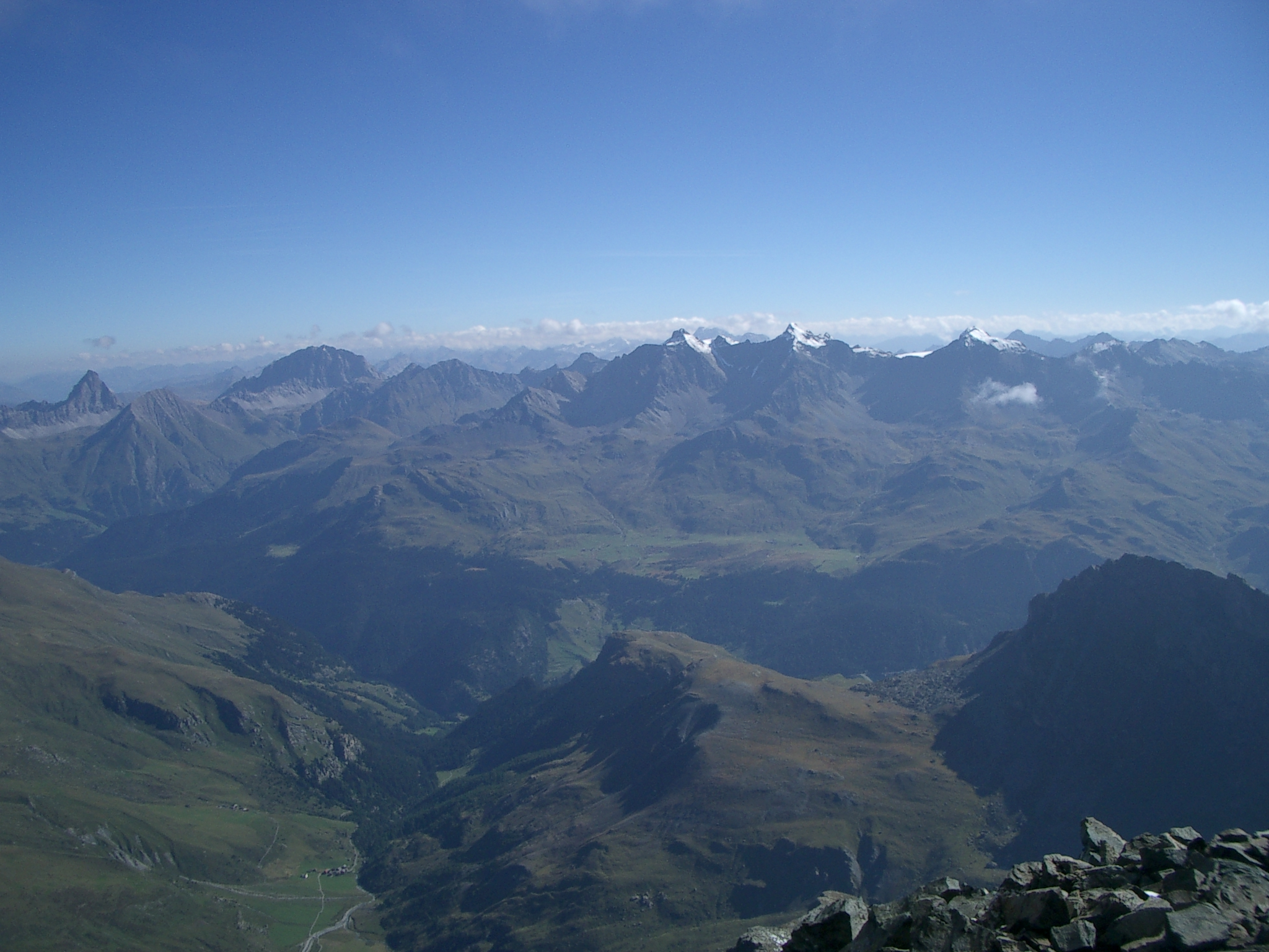 Albula Range with Corn da Tinizong, Piz Ela, Piz d'Err, Piz Calderas, Tschima da Flix, Piz d'Agnel and Val da Faller as seen from Piz Platta, Grisons, Switzerland